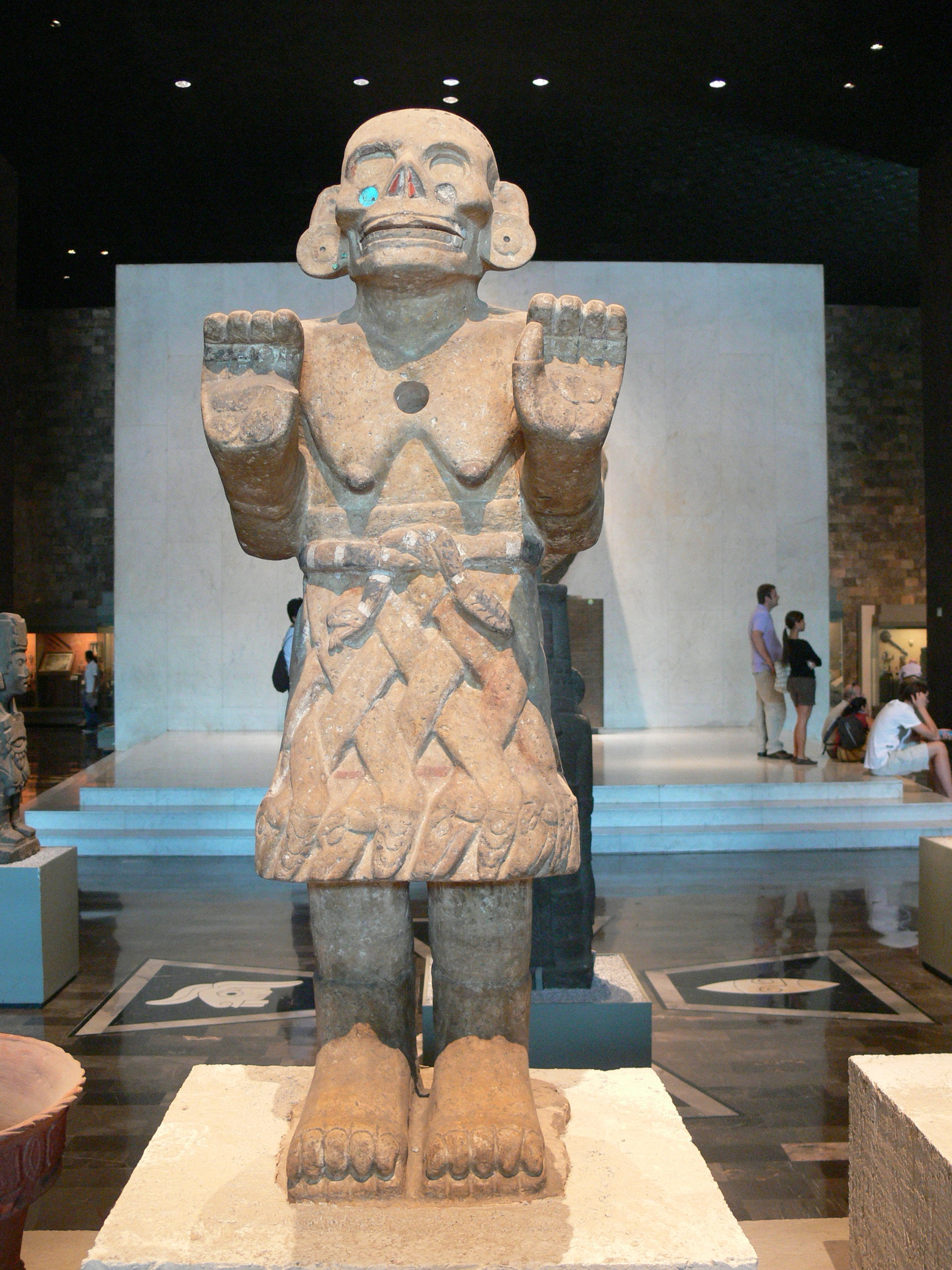 National Museum of Anthropology, Mexico City. Aztec statue of Coatlicue, goddess of earth